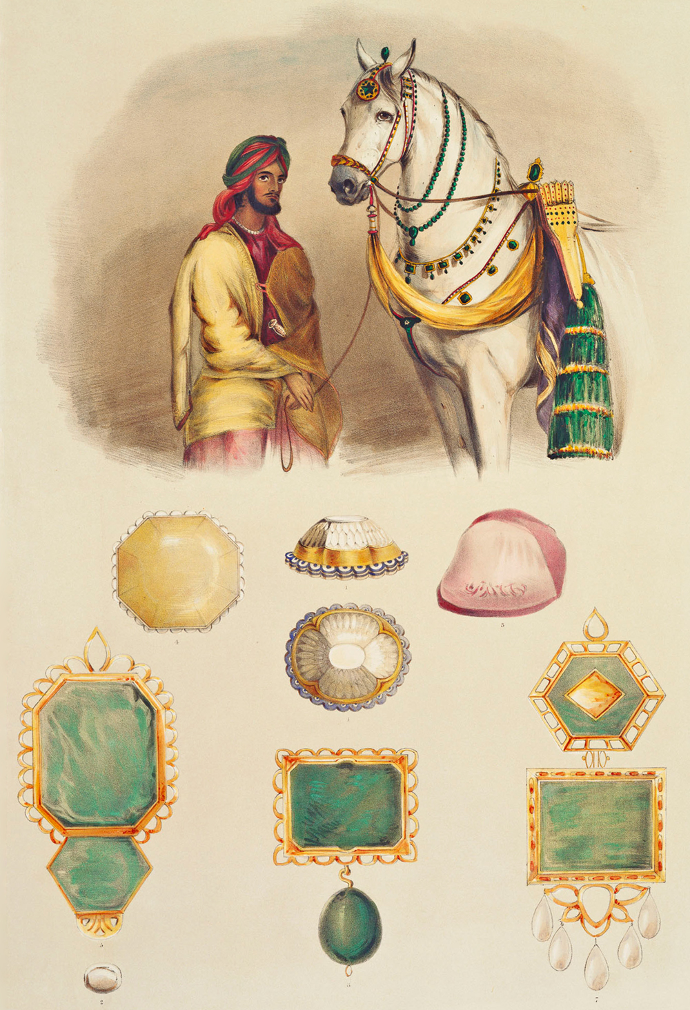 Lithograph showing one of the favourite horses of Maharaja Ranjit Singh with the head officer of his stables and his collection of fabulous jewels including the Kohinoor diamond marked as number 1